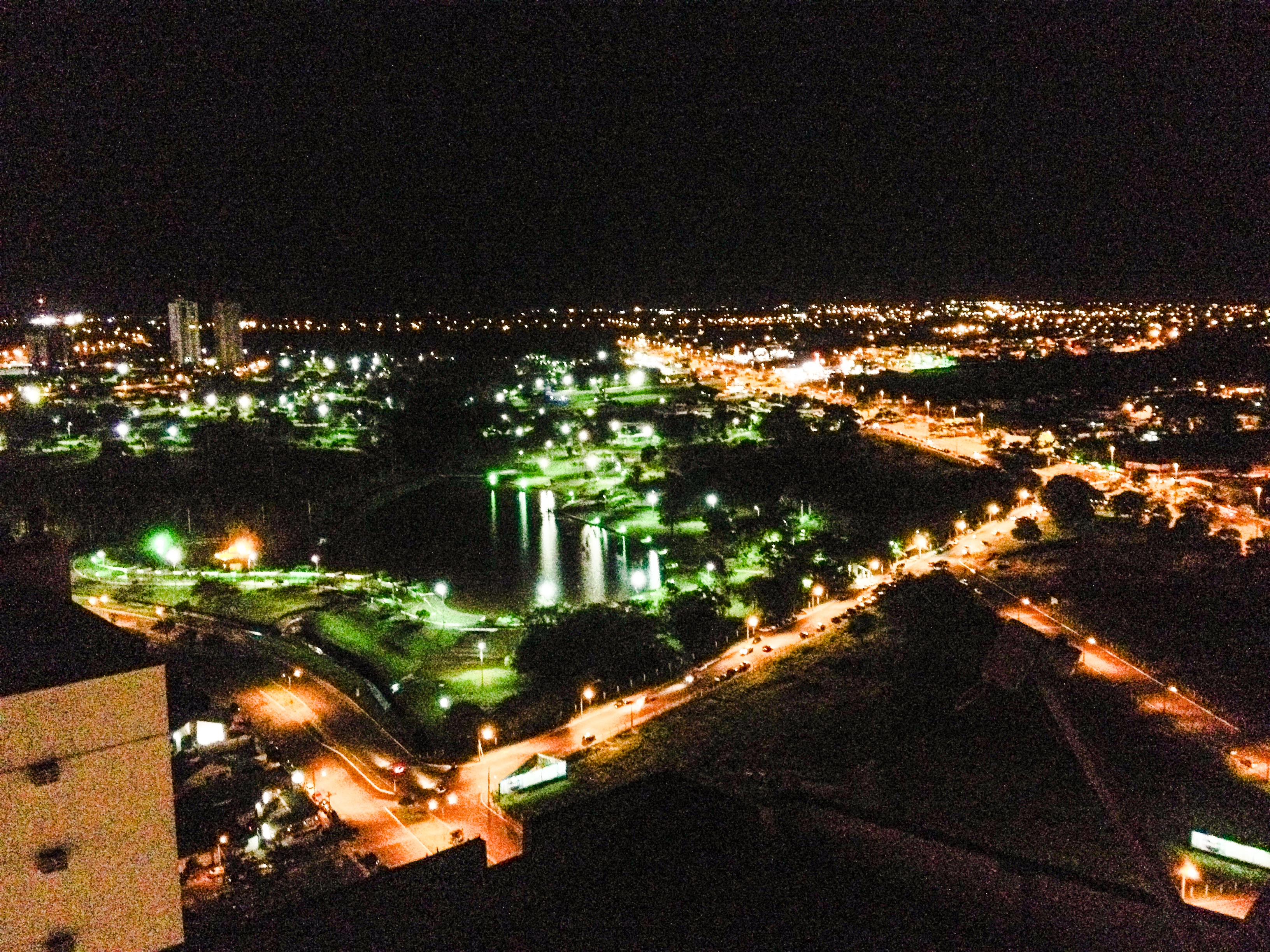 Night view of Parque das Nações Indígenas, near the city centre of Campo Grande - Mato Grosso do Sul. It is possible to see the lake in the park and the lights around it. The picture were taken with an iPhone and it was used an app to create long exposition. Picture were taken from the top of a building next to the park.